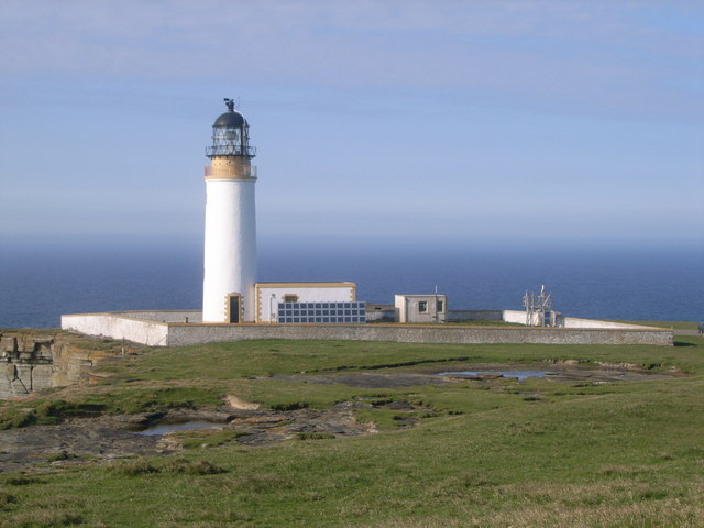 Noup Head lighthouse - full enclosure